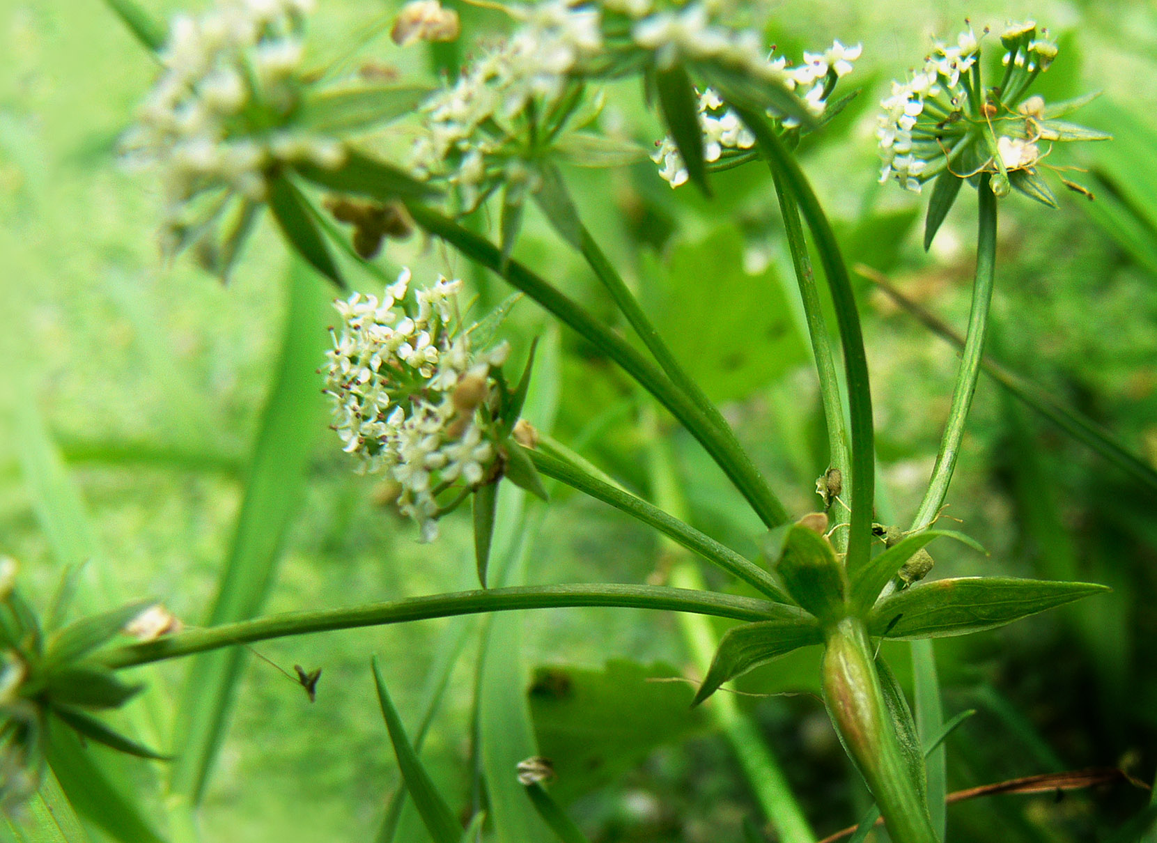 Apium repens, Nord/Pas-de-Calais, France